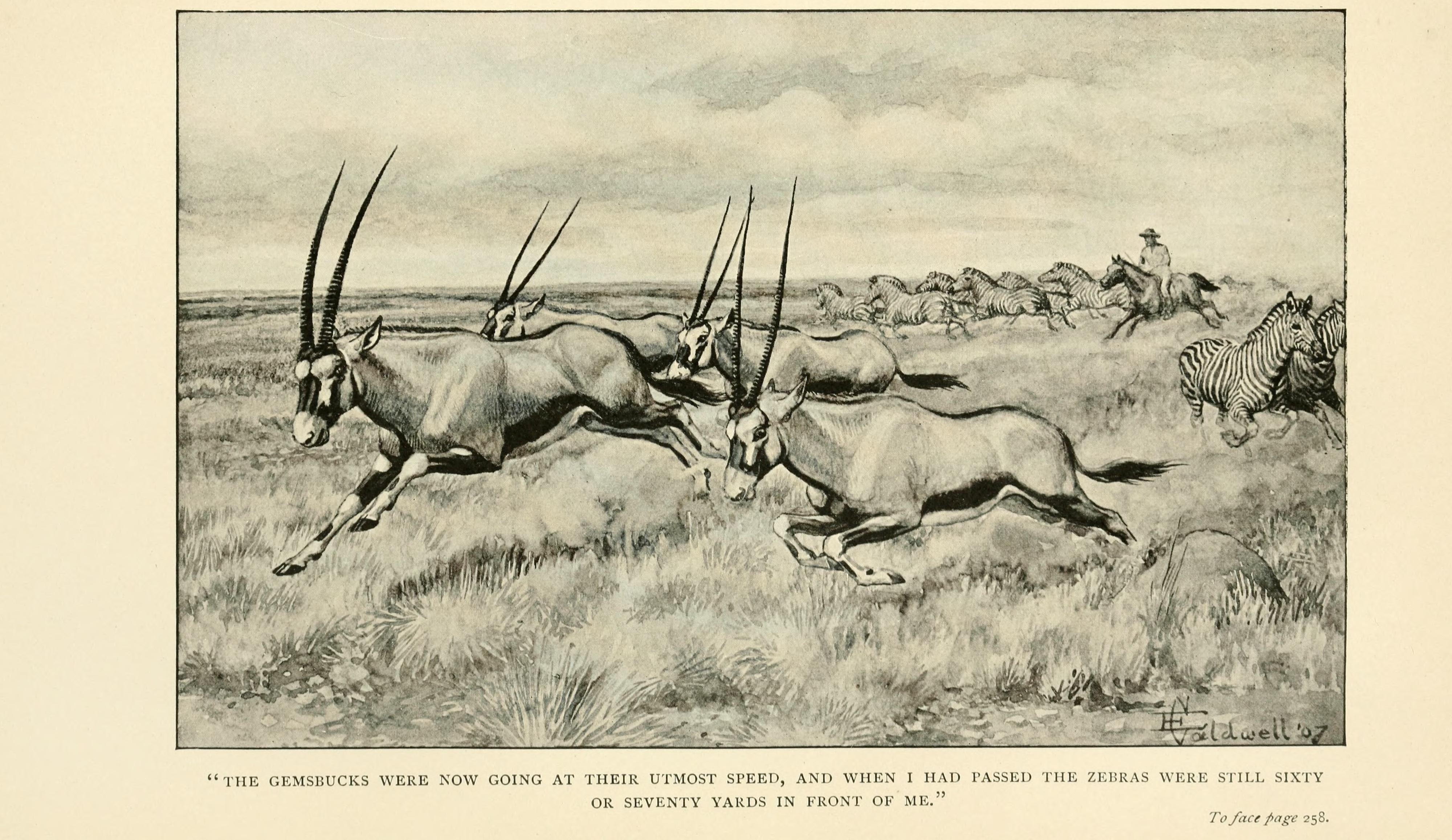 Title: African nature notes and reminiscences Year: 1908 (1900s) Authors: Selous, Frederick Courteney, 1851-1917 Subjects: Hunting; Animal behavior Publisher: London, Macmillan and co. , limited Text Appearing Before Image: ' Text Appearing After Image: '